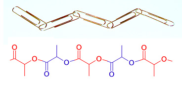 I made it.